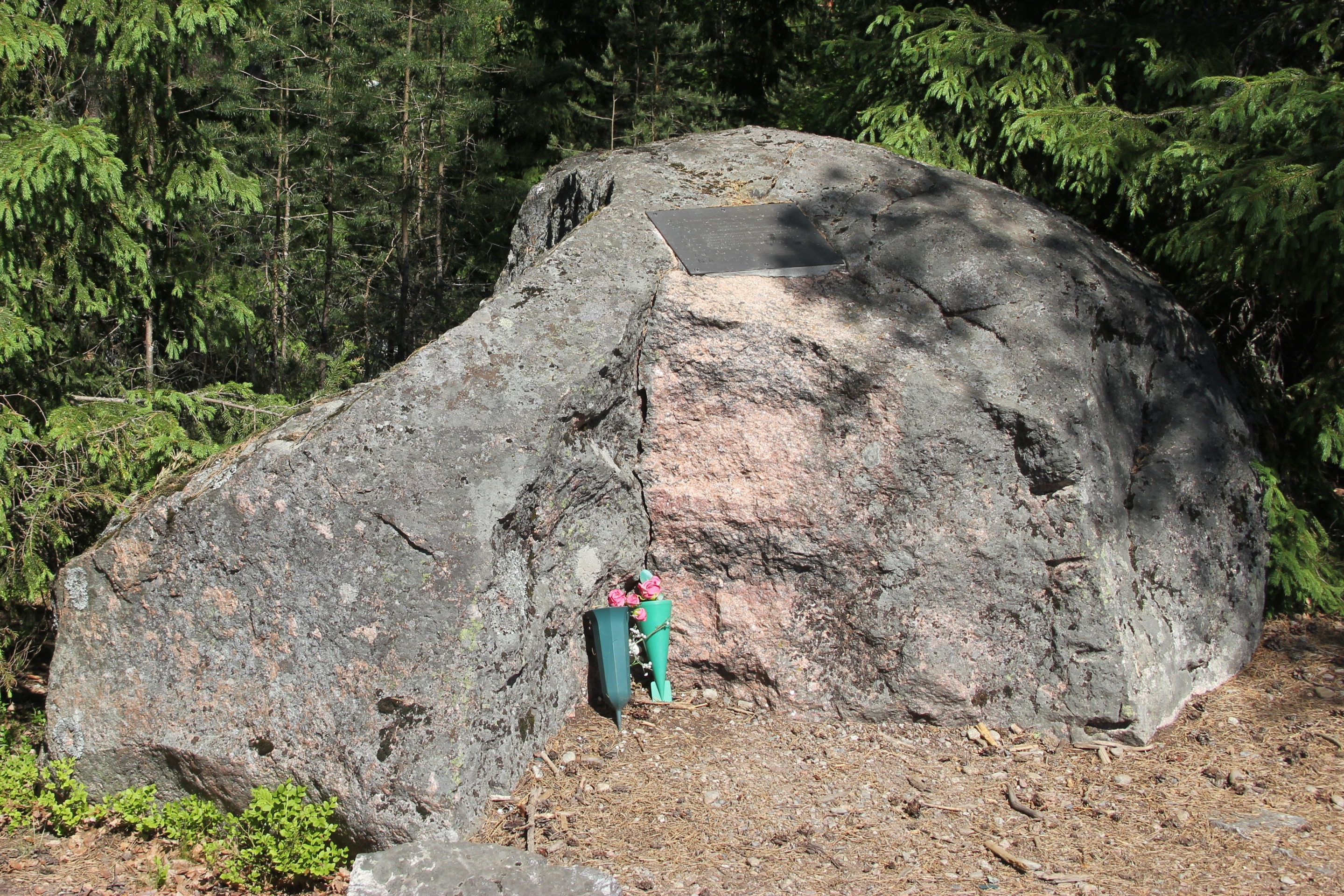 Memorial stone for the aircraft accident on 1 August 1941 in Nummela, Vihti, Finland